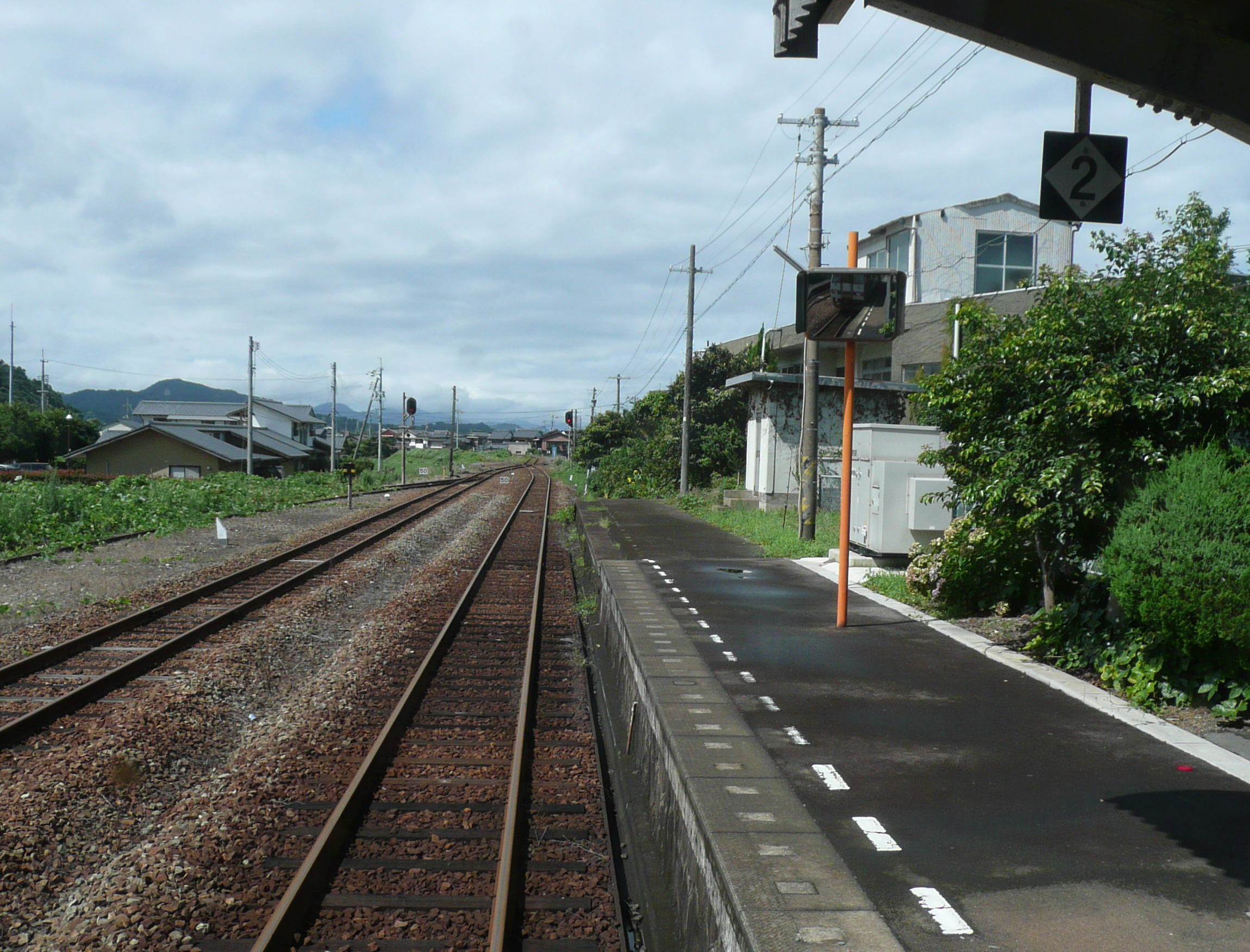 Nago Station platform, view towards Higashi-Hagi and Nagatoshi